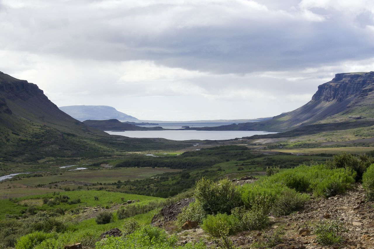 Looking out Hvalfjordur, Iceland